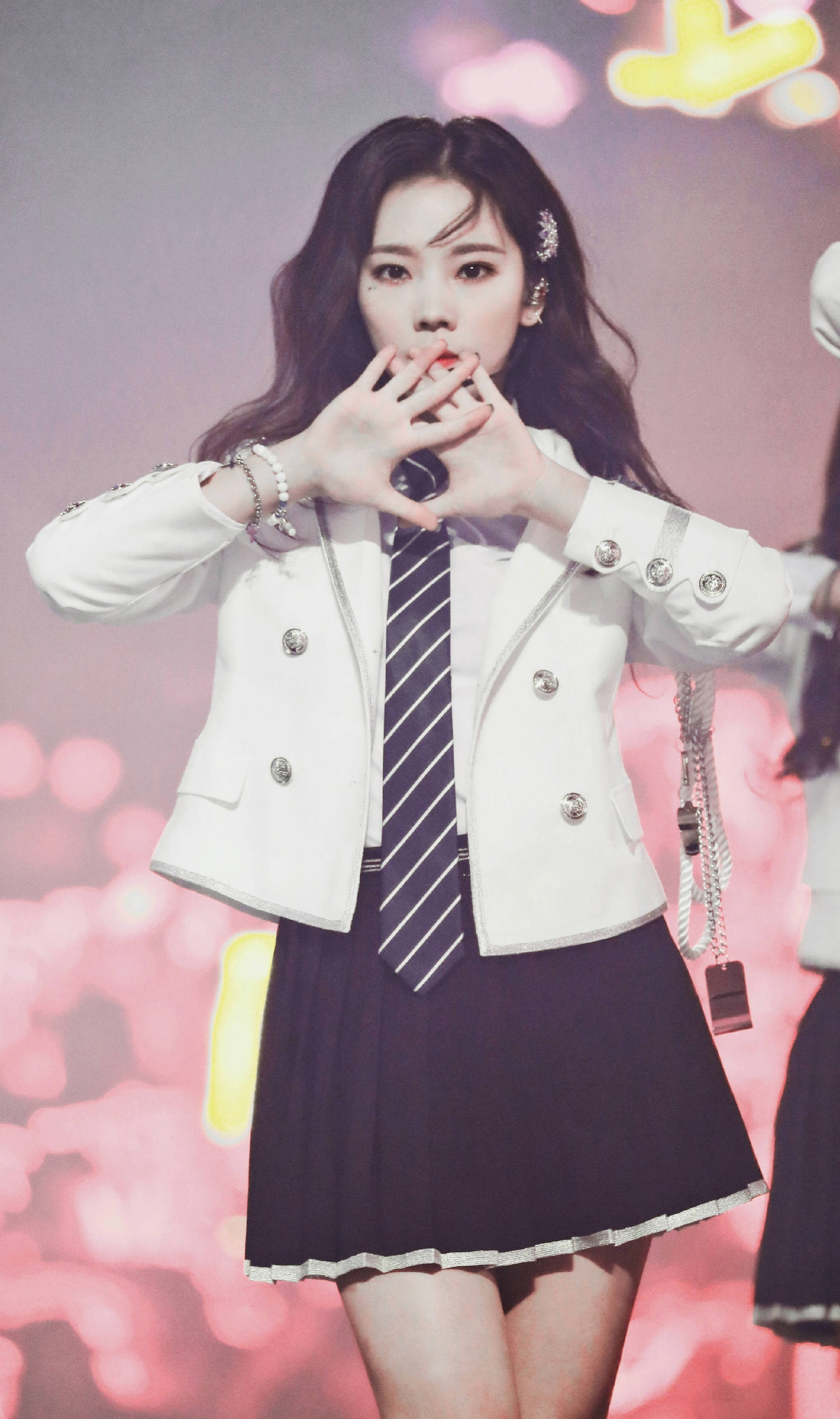 Winnie Zhang in Guangzhou Concert 2019